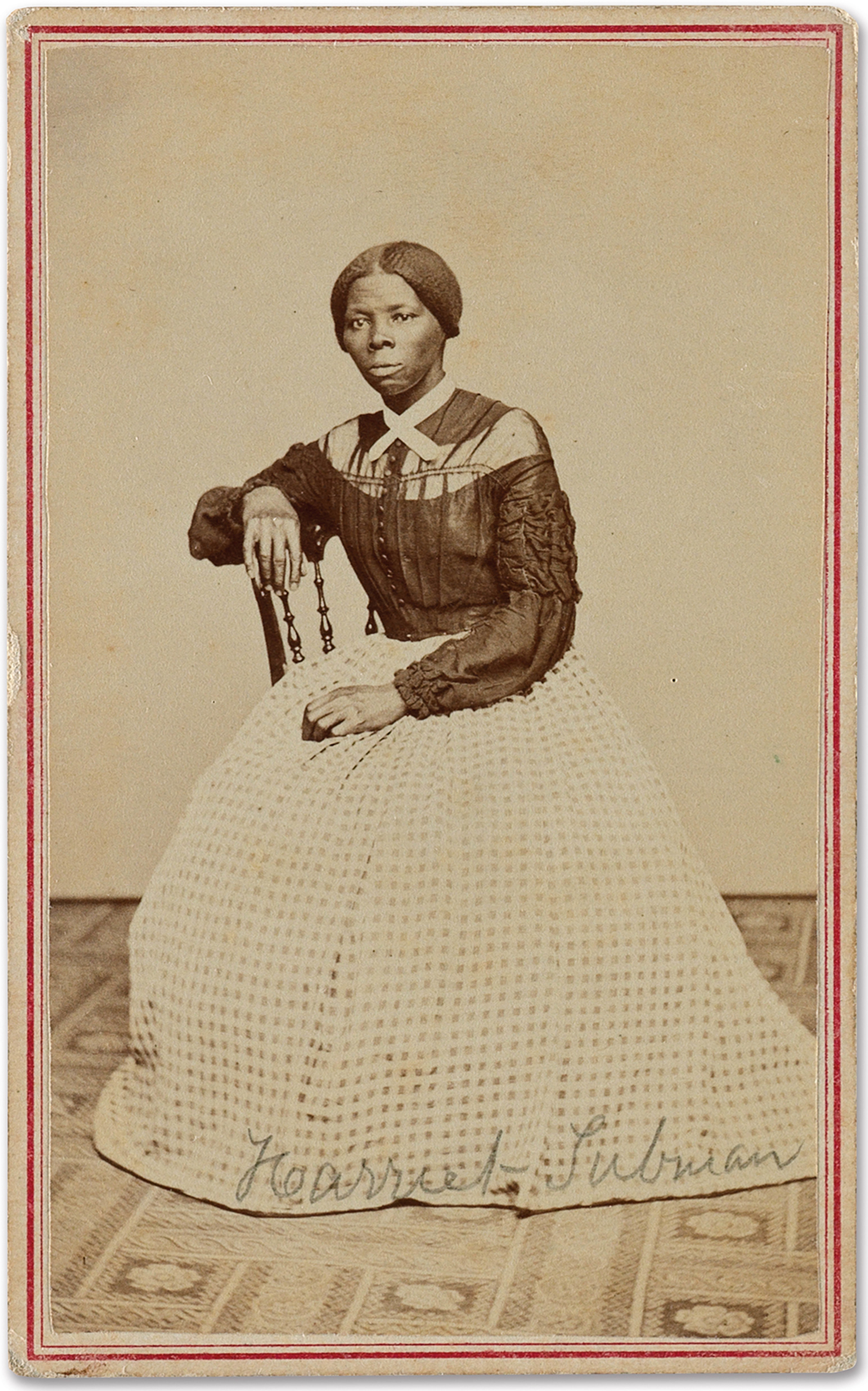 Carte-de-visite showing a considerably younger Harriet than normally seen in the known images of her, just coming off her work during the Civil War. Photographed in Auburn, NY